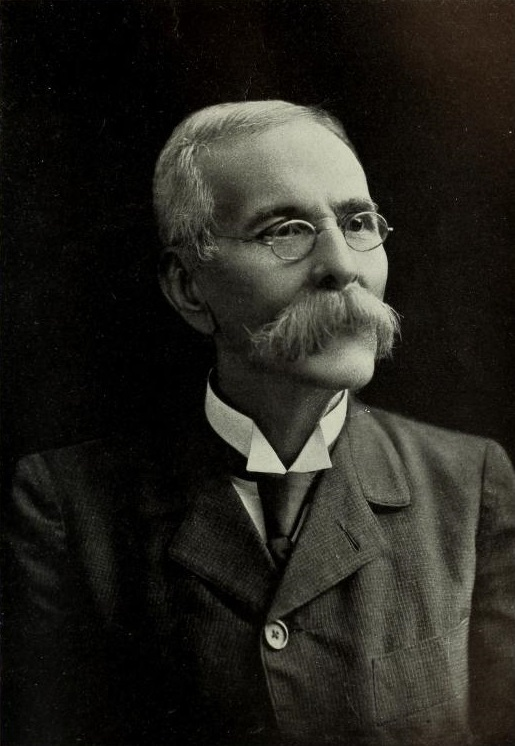 Portrait of Manuel Amador Guerrero